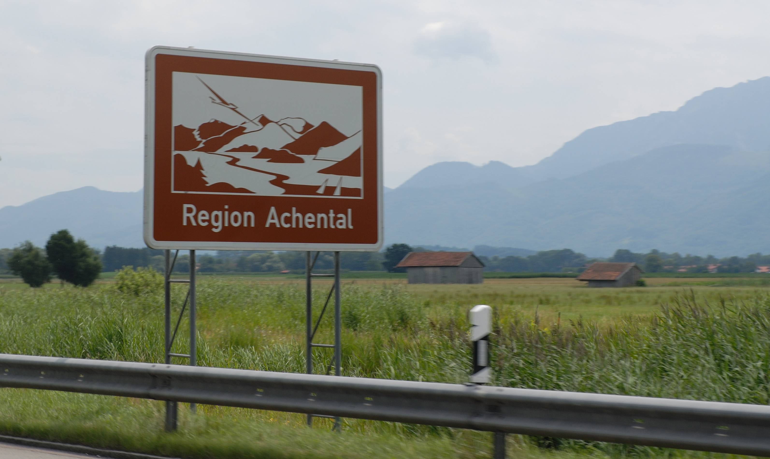 Road sign for the Achental region. Road shot from A 8.